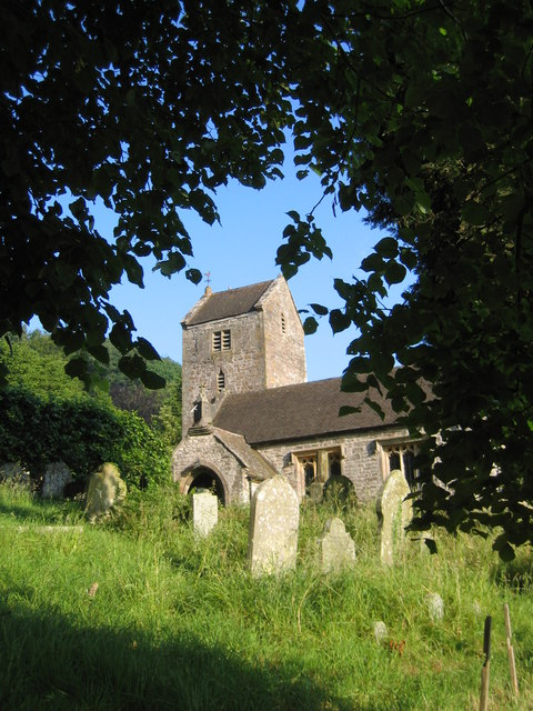 Penallt Old Church